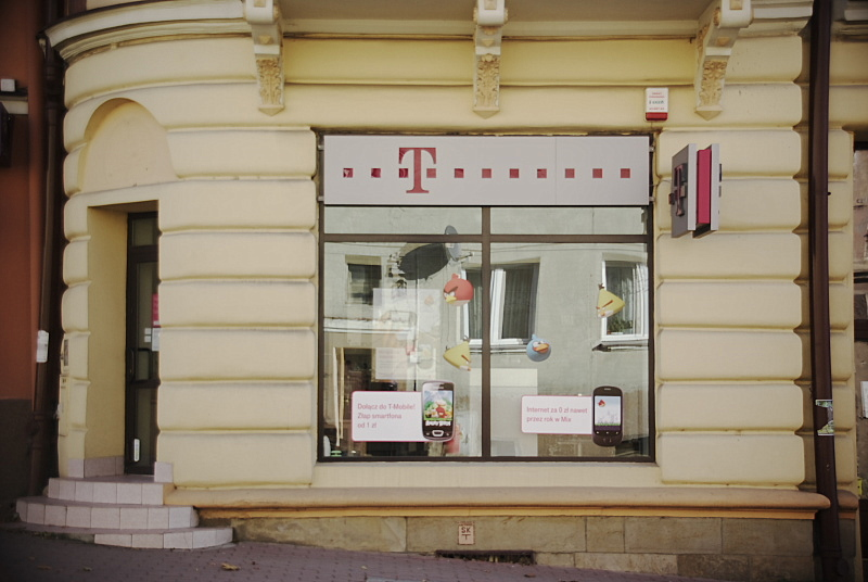 T-Mobile shop in Sanok, at 25 Jagiellońska Street